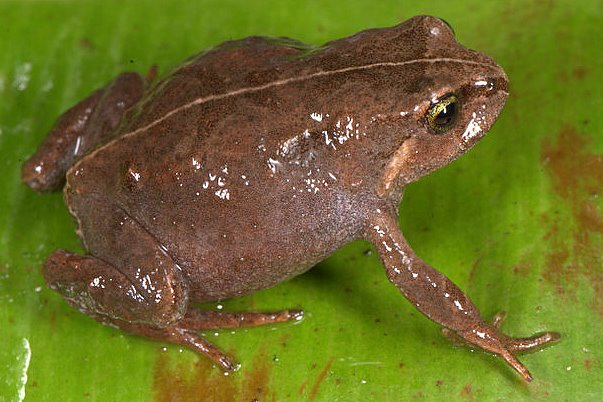 Bryophryne hanssaueri